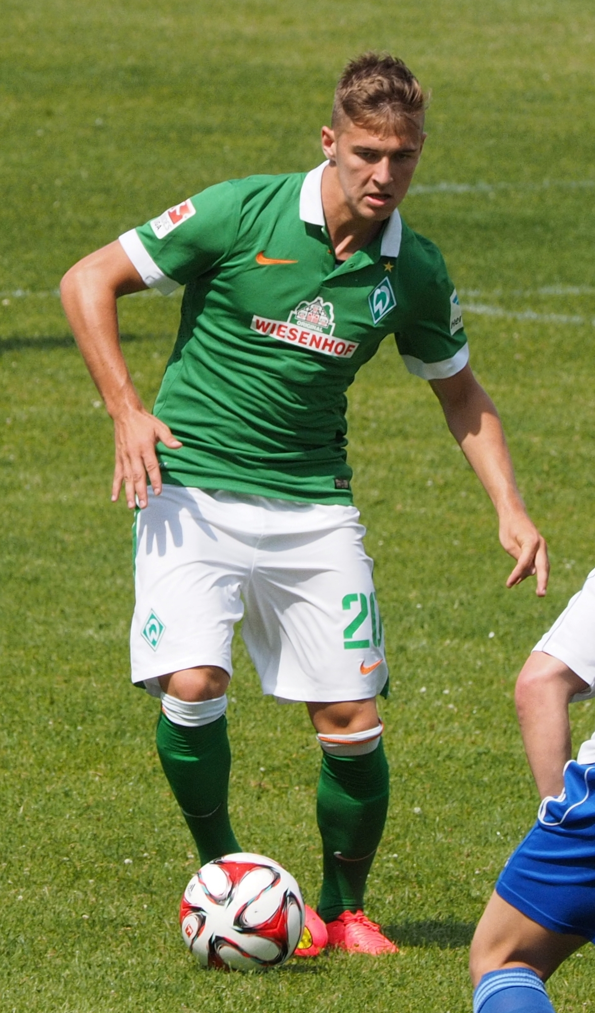 Martin Kobylański playing for Werder Bremen in a friendly game against BSV Kickers Emden on 13 July 2014.